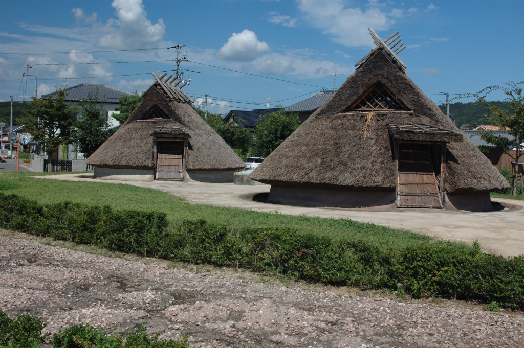 Kadota kaizuka is a shell mound dating from the Yayoi period to the Kamakura period, located in Oku, Setouchi City, Okayama prefecture, Japan